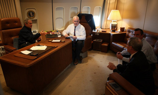 George W. Bush in his Air Force One office with Bill McGurn, Stephen Hadley and Ed Gillespie en route to Bahrain.